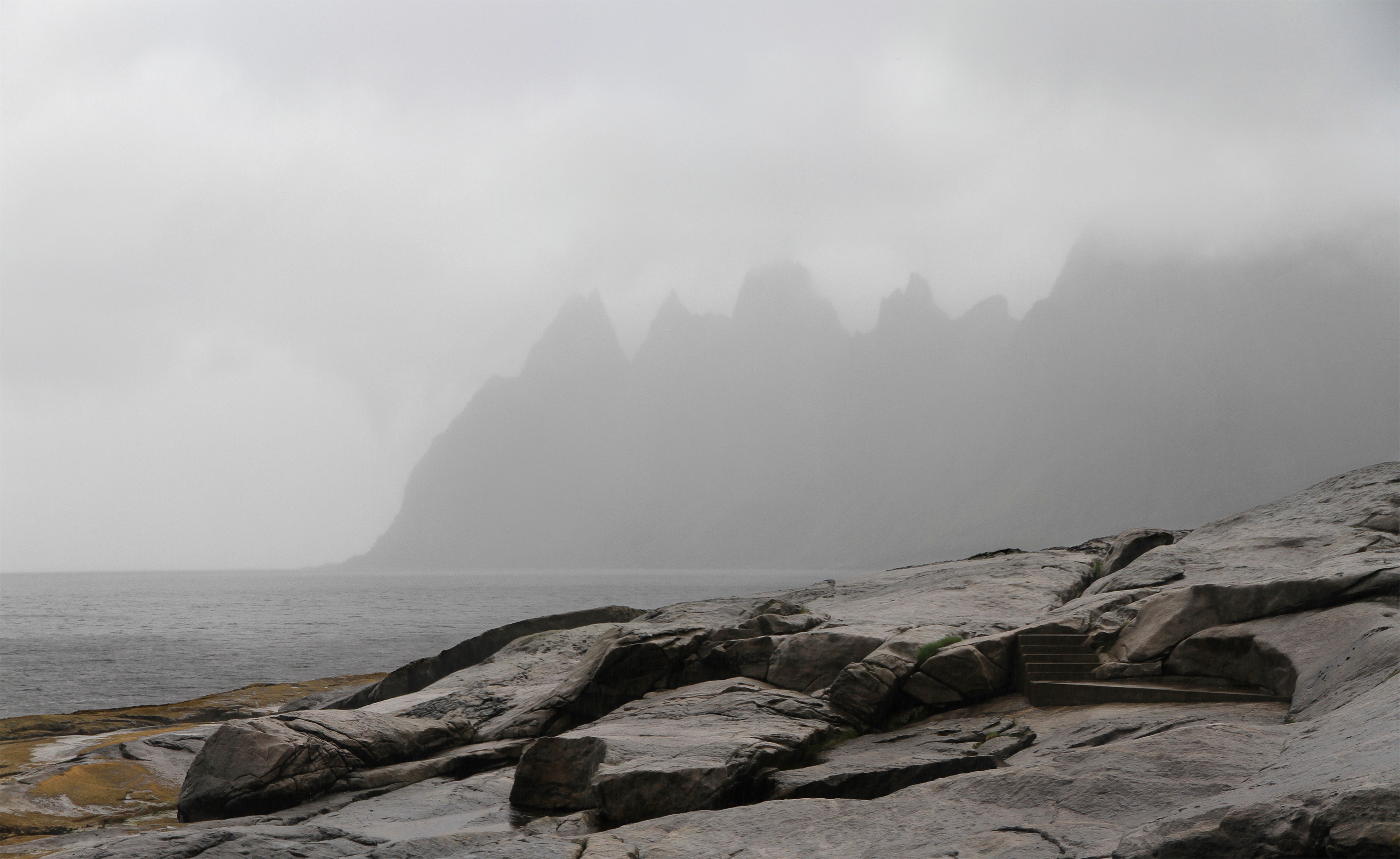 Spires of Okshornan in Senja as seen from Tungeneset in a rainy day in 2011 June.